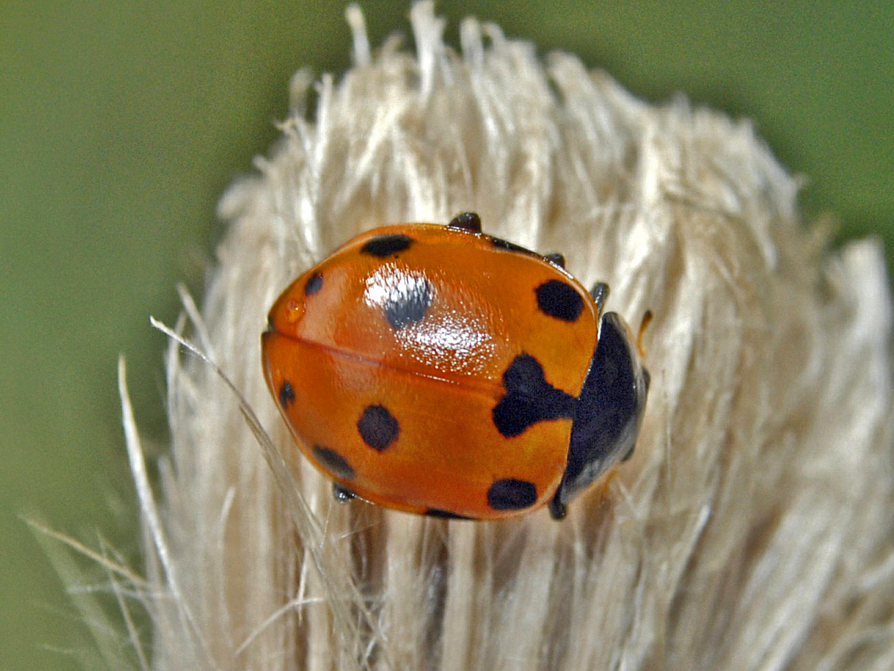 Hippodamia undecimnotata. Val Veny, Aosta, Italy